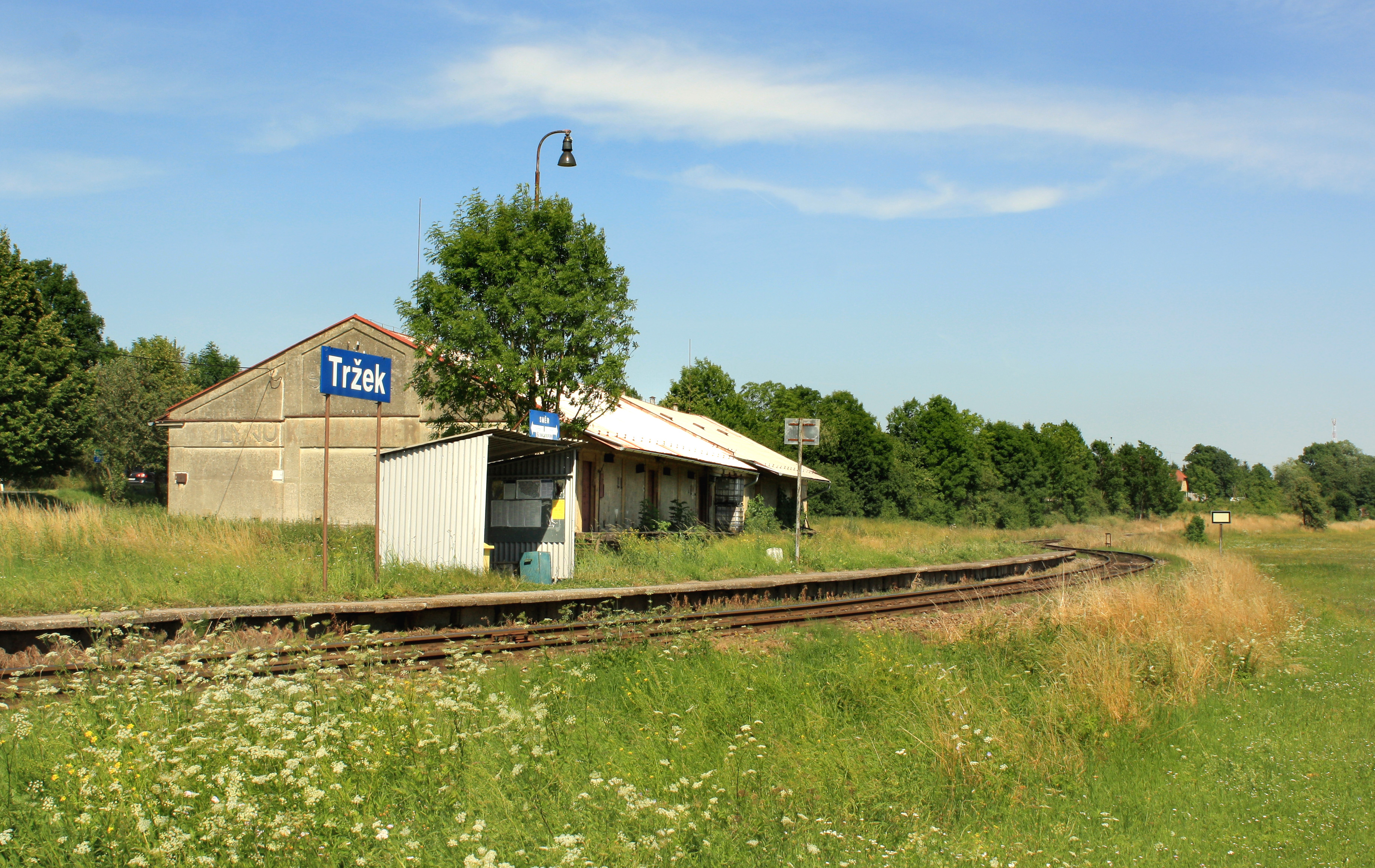 Railway stop in Tržek, Czech Republic